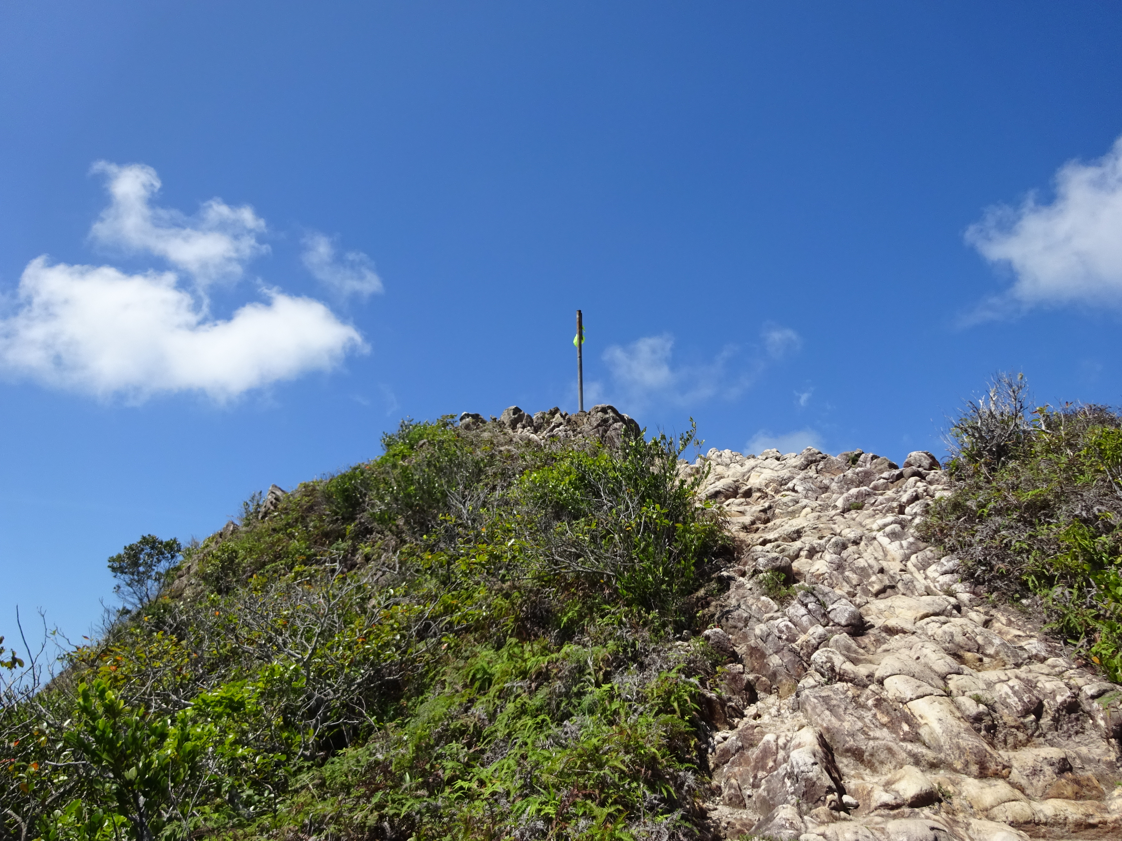 The Peak, the highest point in Providencia Island